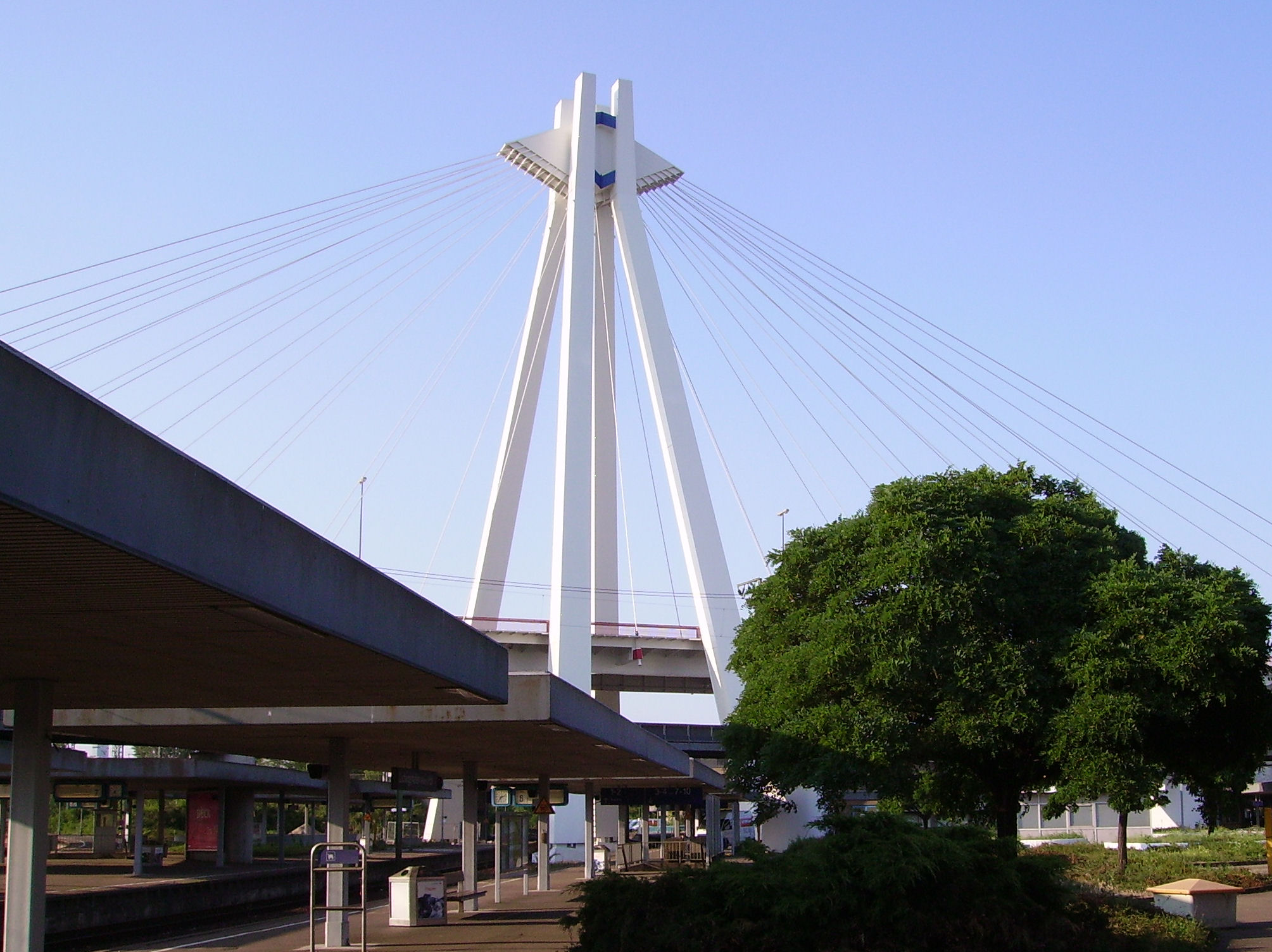 train station of Ludwigshafen, Germany